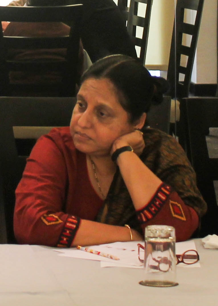 Photograph of Nimalka Fernando.